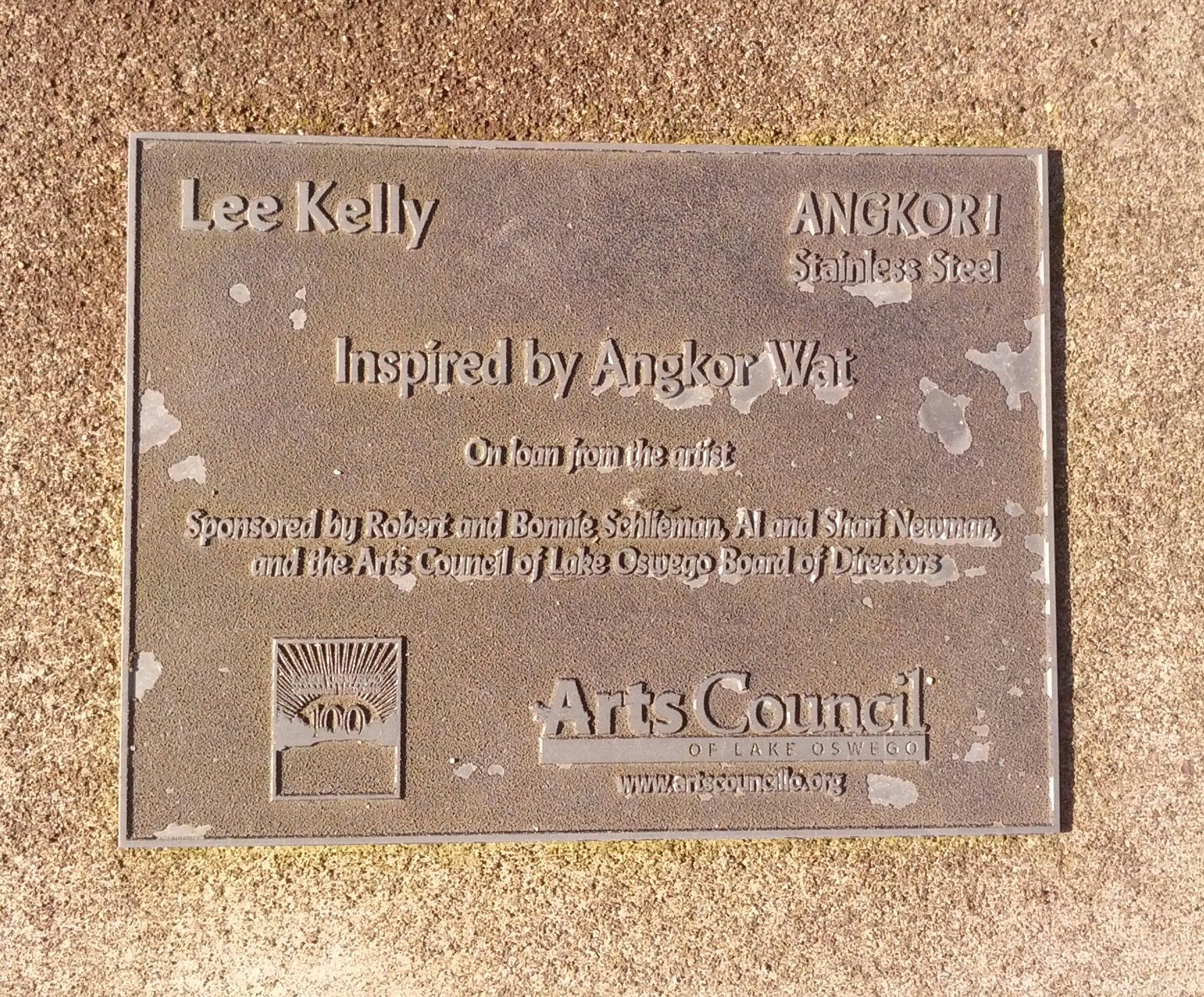 Plaque on Angkor I statue in Lake Oswego, OR